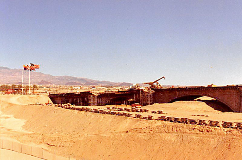 London Bridge under construction, Lake Havasu City, Arizona, Family vacation photo, March 5th, 1971.